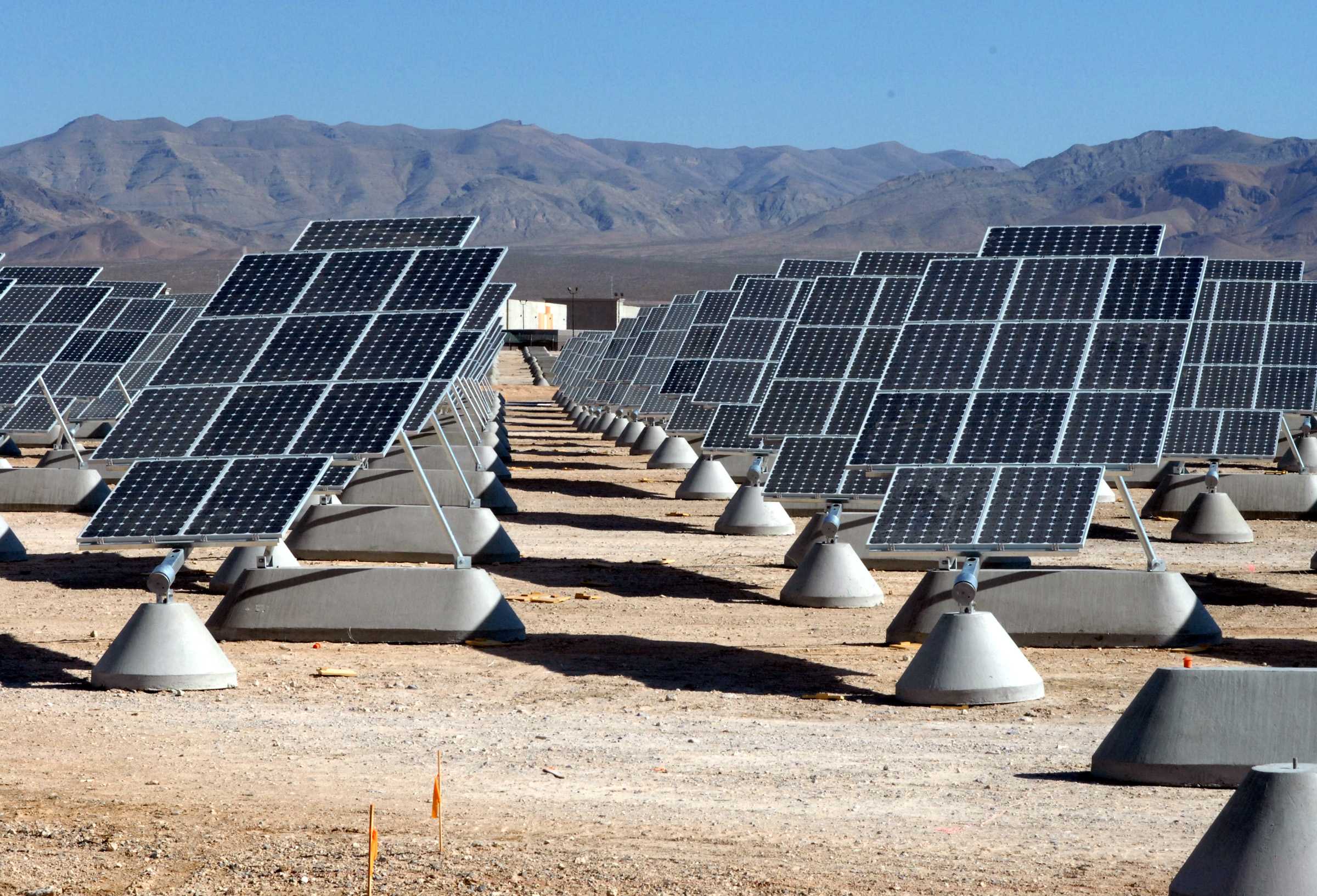 The largest photovoltaic solar power plant in the United States is becoming a reality at Nellis Air Force Base. When completed in December, the solar arrays will produce 15 megawatts of power